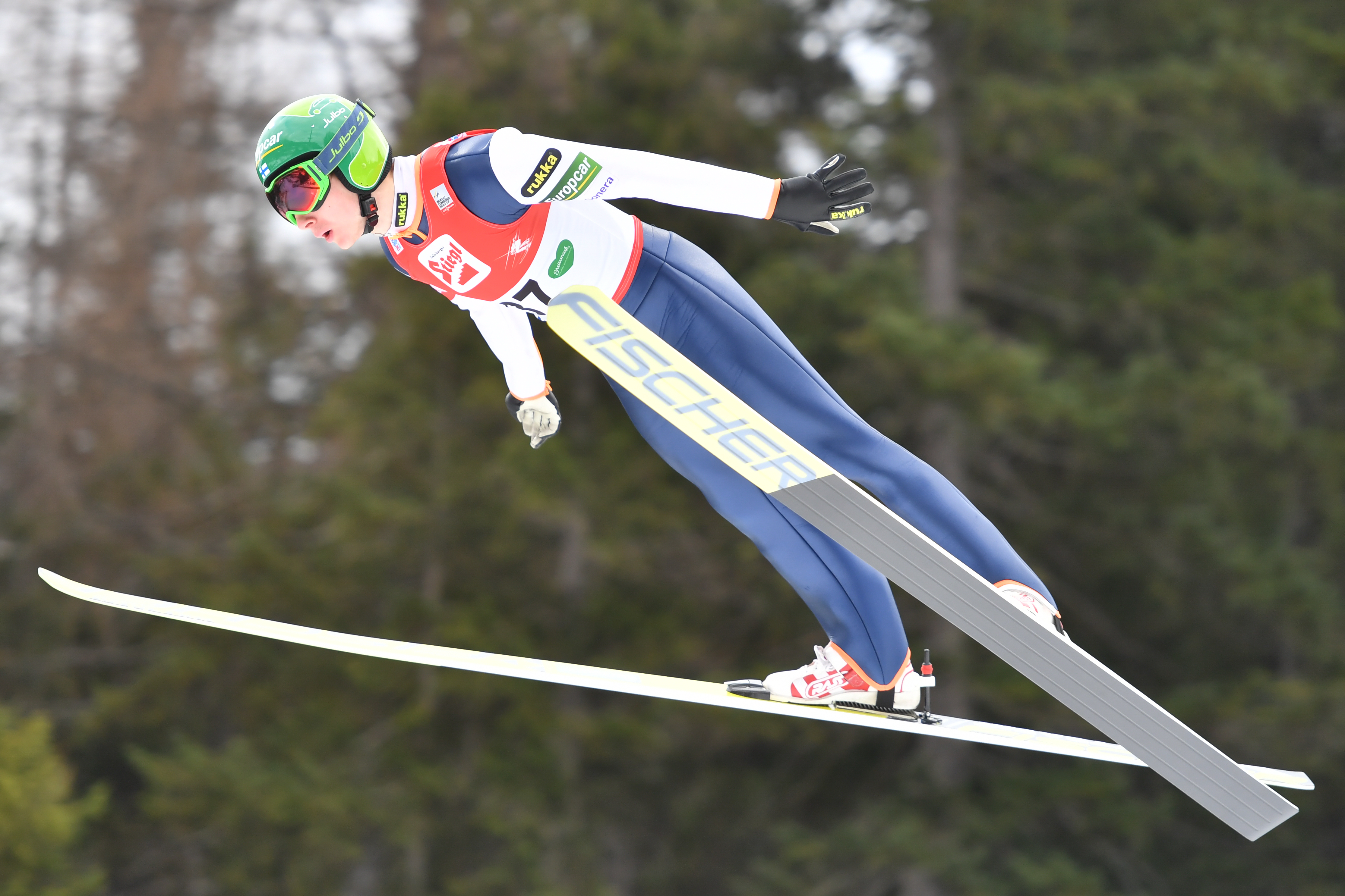 FIS World Cup Nordic Combined, Ramsau/Austria, 2016-12-16 to 2016-12-18.